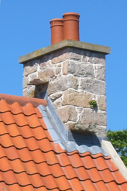 Witches' stones on a chimney in Jersey. In folklore, these are believed to provide resting-places for witches - in fact they were to protect the joins of thatched roofs from seeping water.